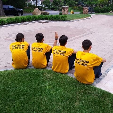 valet Parking in process